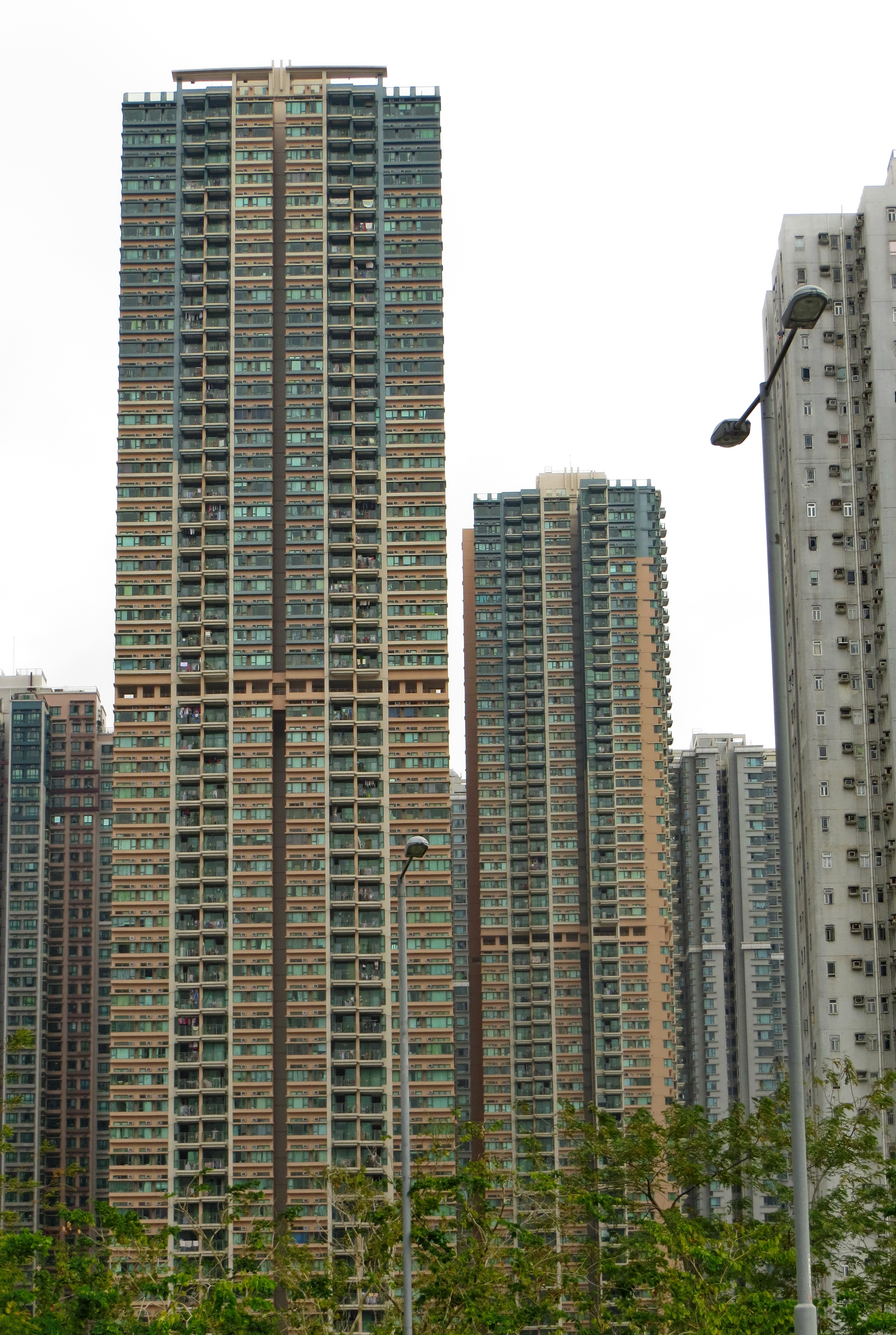 Residence Oasis, Tseung Kwan O, Hong Kong.